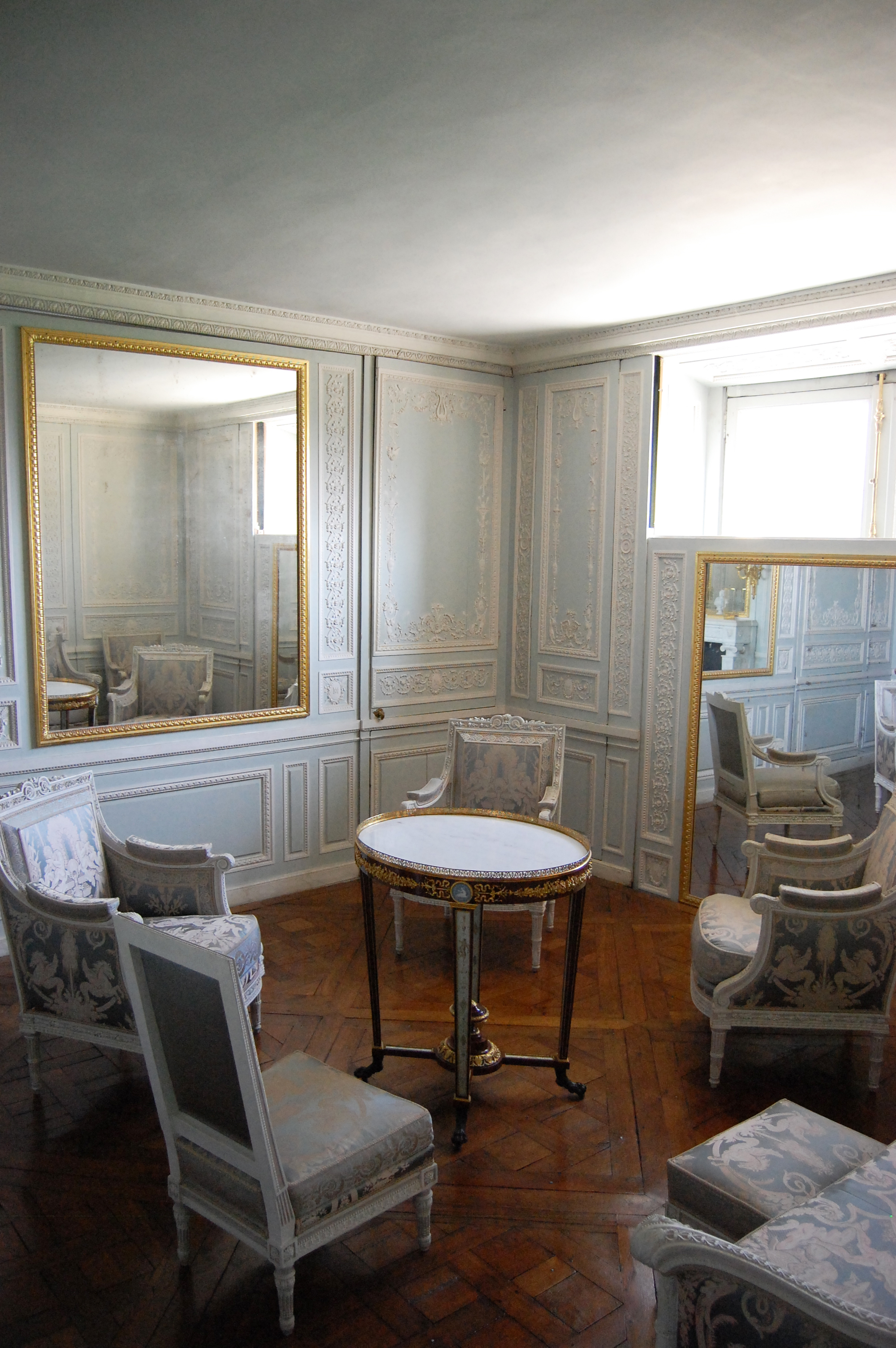 Bedroom of Marie-Antoinette of Austria, with the moving mirrors on the background - Petit Trianon